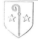 Emblem of the Congregation of Solesmes, of the Benedictine order, from a printed material, ca. 1895